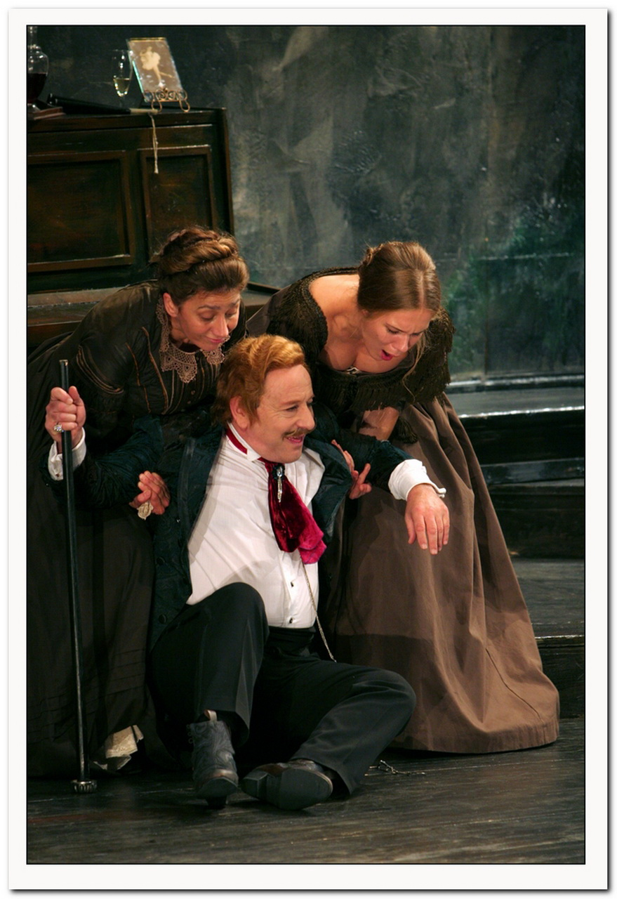 "Uncle's Dream" by Fyodor Dostoevsky, directed by Egon Savin; Drama of SNT, Novi Sad, 2006/07; Gordana Đurđević Dimić, Predrag Ejdus, Milica Grujičić Srpski (latinica): "Ujkin san" Fjodora Dostojevskog u režiji Egona Savina, Drama SNP-a, Novi Sad, 2006/07; Gordana Đurđević Dimić, Predrag Ejdus, Milica Grujičić Српски (ћирилица): "Ујкин сан" Фјодора Достојевског у режији Егона Савина, Драма СНП-а, Нови Сад, 2006/07; Гордана Ђурђевић Димић, Предраг Ејдус, Милица Грујичић